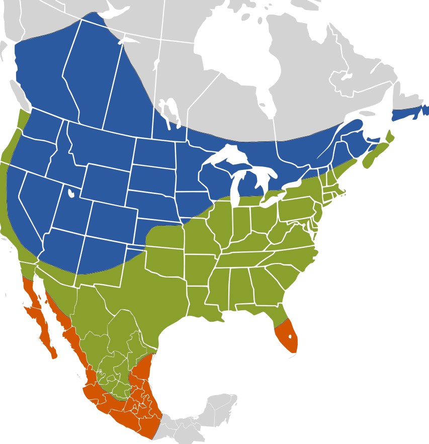 Distribution map of Brown-headed Cowbird (Molothrus ater). Blue: breeding, green: year-round, ochre: nonbreeding.